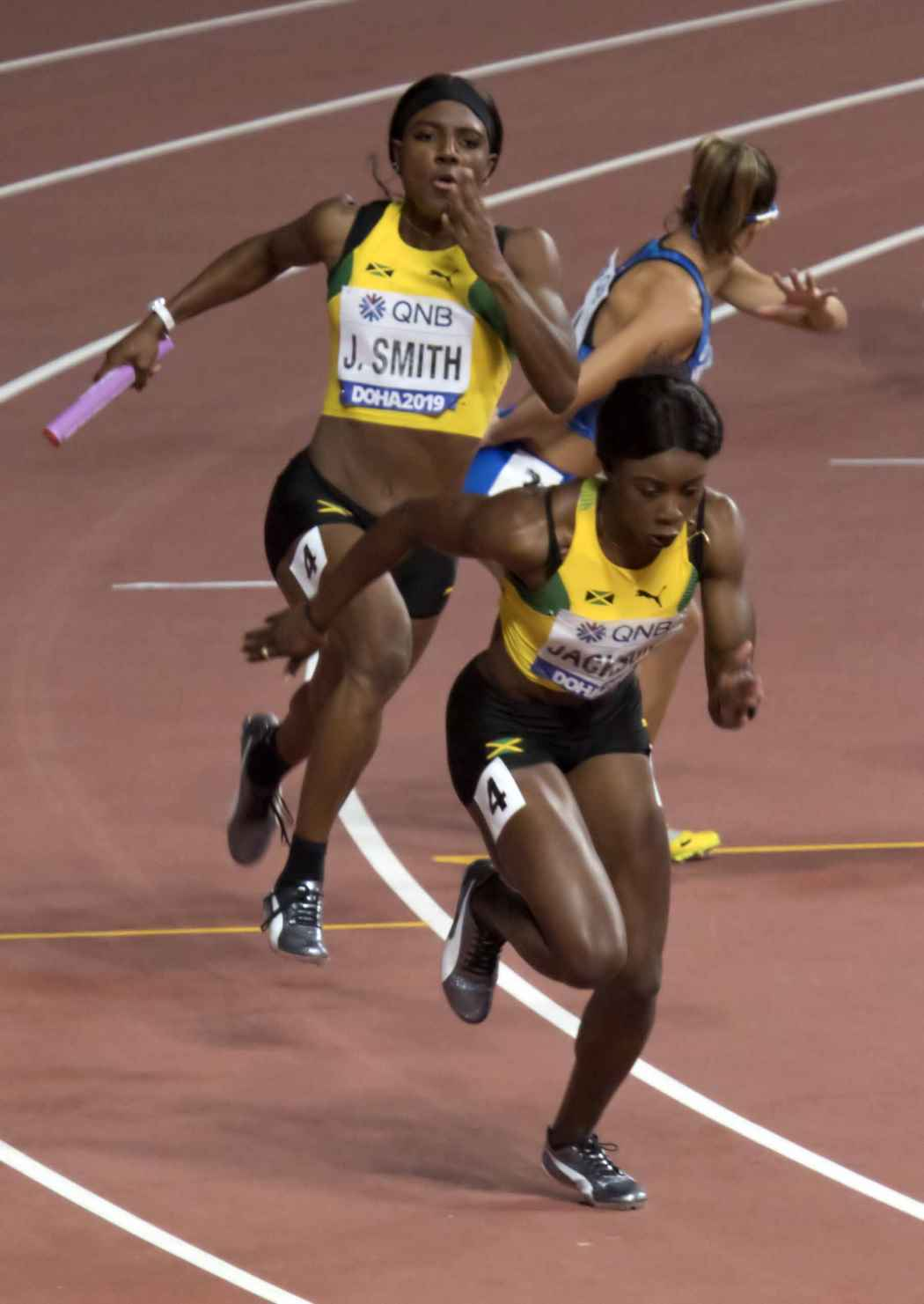 DOH80500 4x100m women final